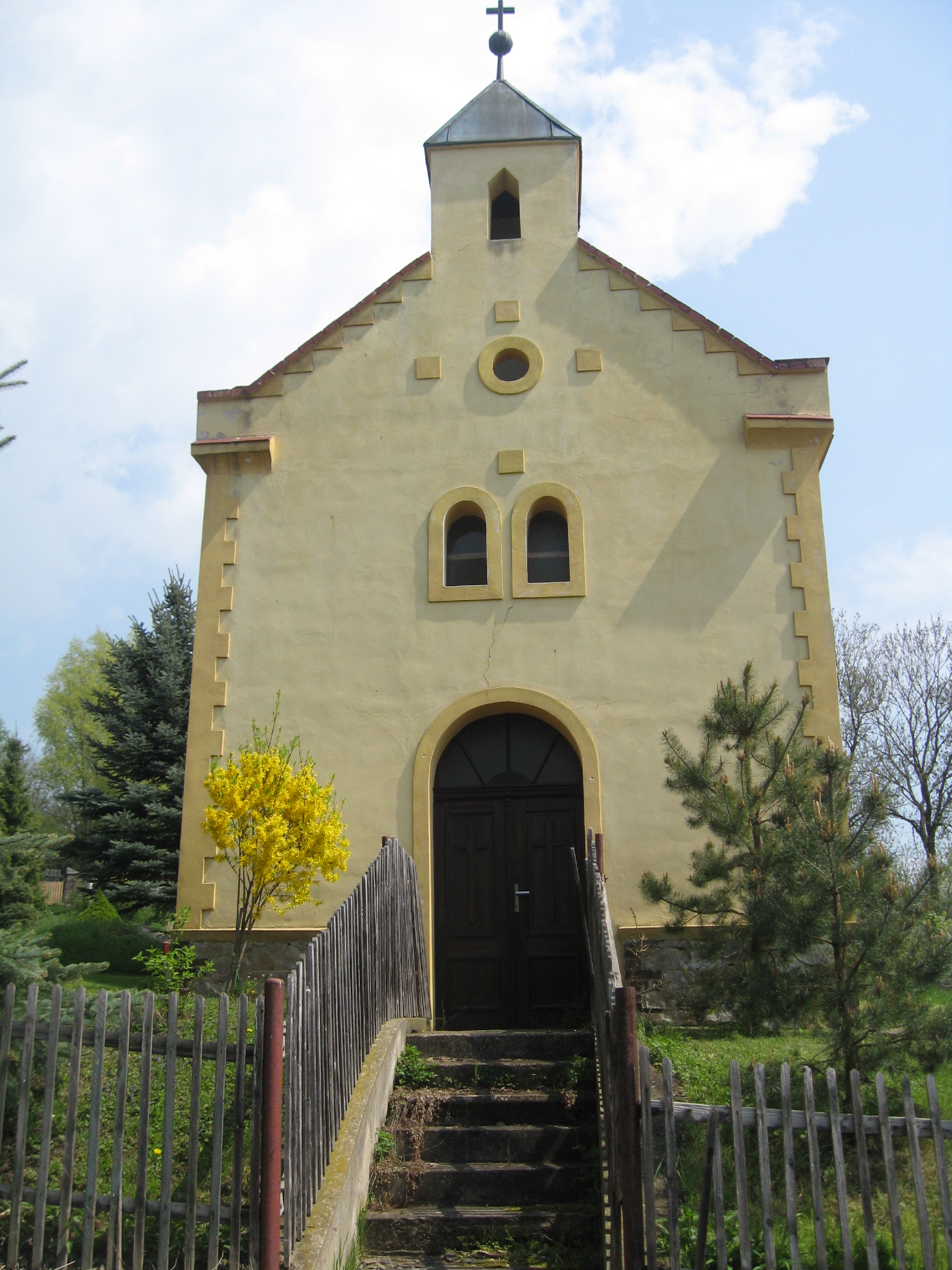 Chapel in Milá, Czech Republic